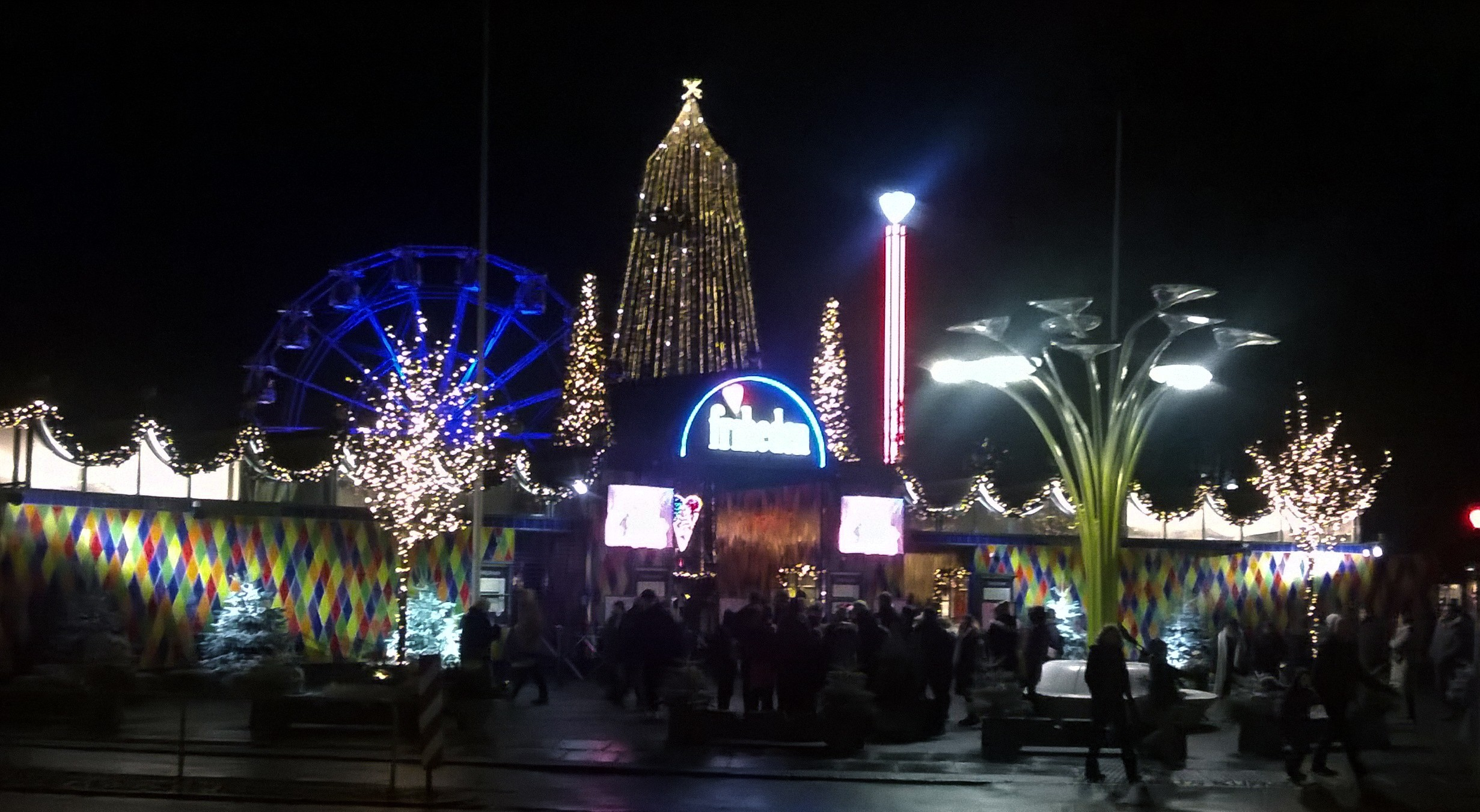 Tivoli Friheden 2019.